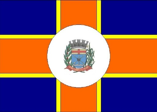 Flag of Sebastianópolis do Sul - SP - Brasil.